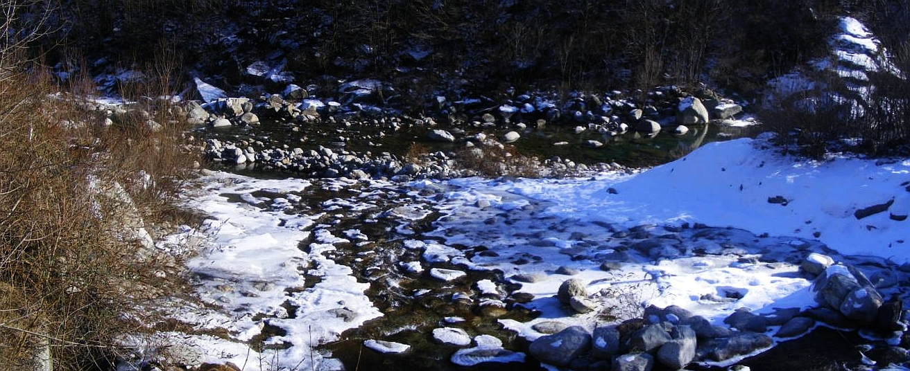 Ribordone creek: confluence in the Orco in winter (TO, Italy)